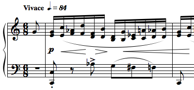 Excerpt from Chopin's Etude Op. 10 No. 7